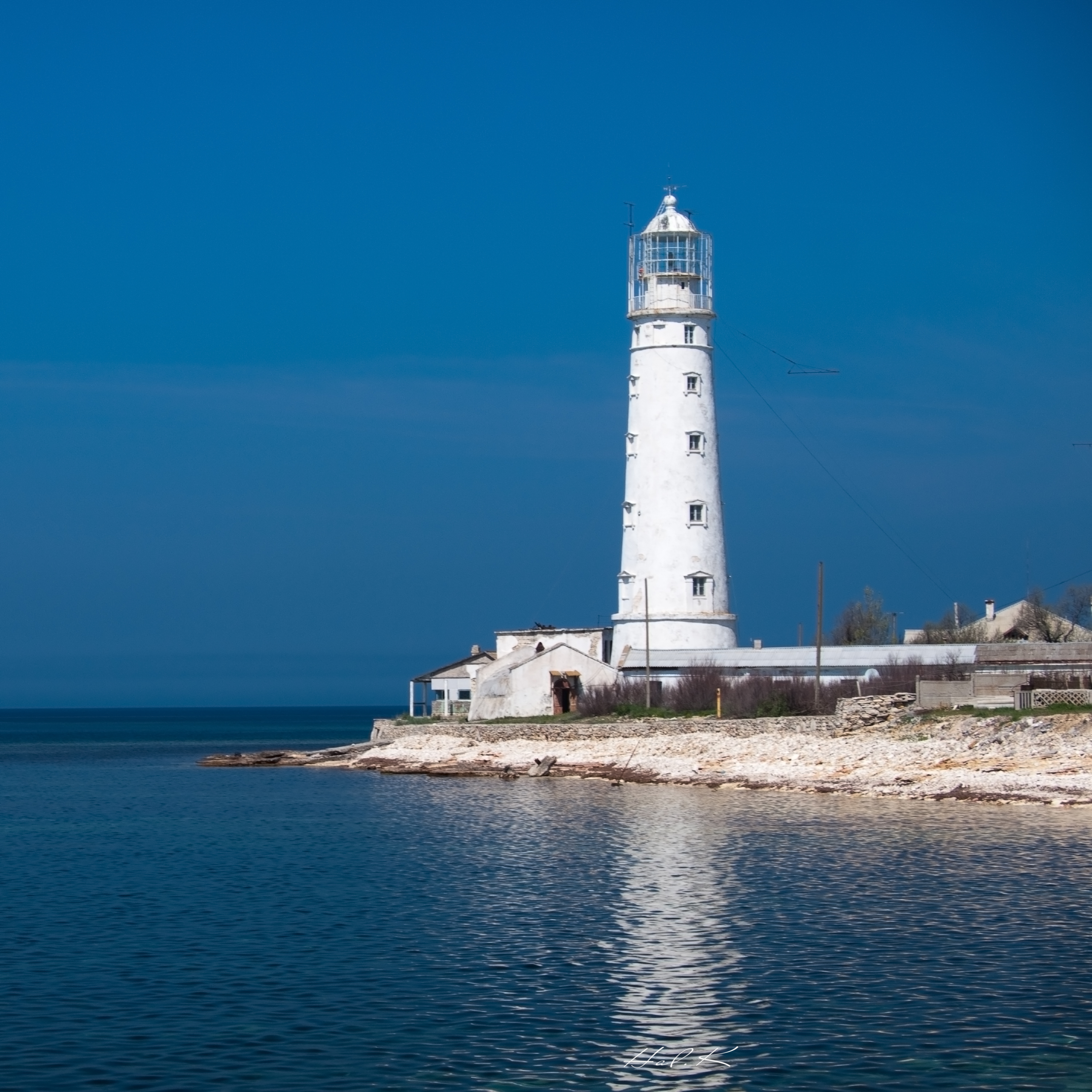 Lighthouse